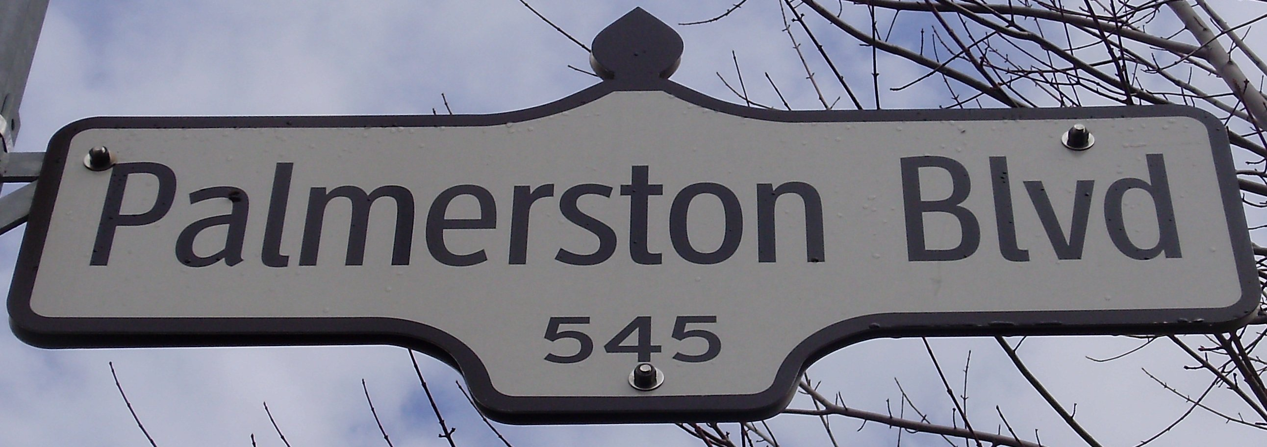 A street sign for Palmerston Boulevard at its intersection with Bloor Street West in Toronto, Ontario, Canada.